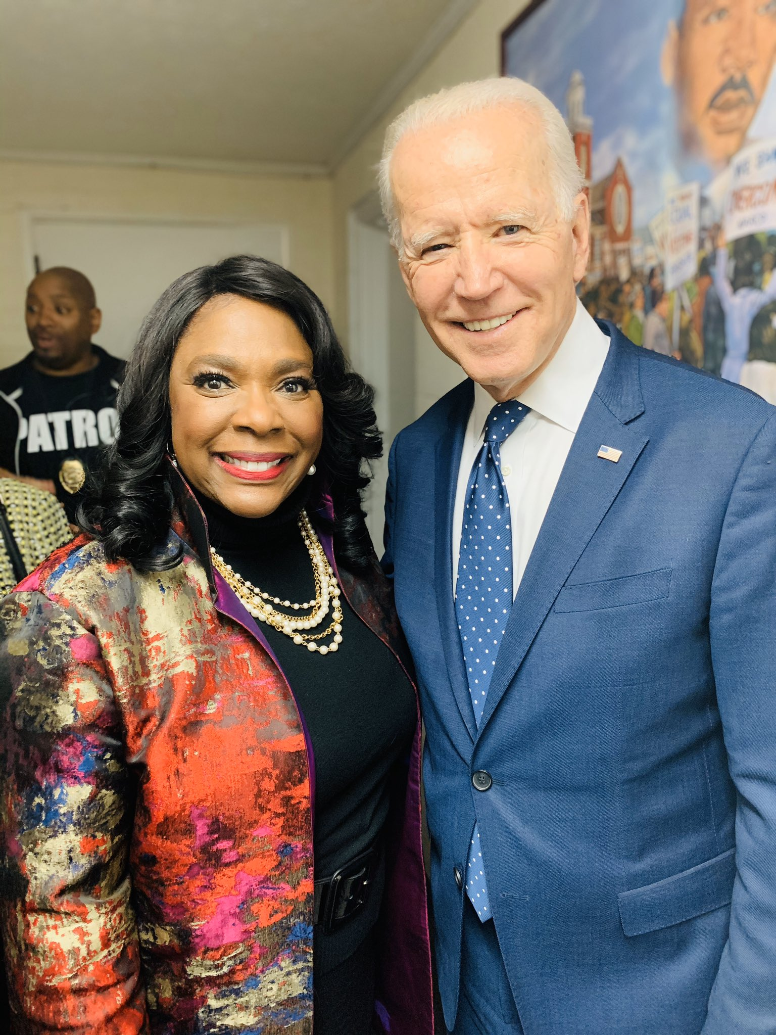 Thank you, Mr. Vice President for your inspiring words, and the substantive fight behind them. 🙏🏾